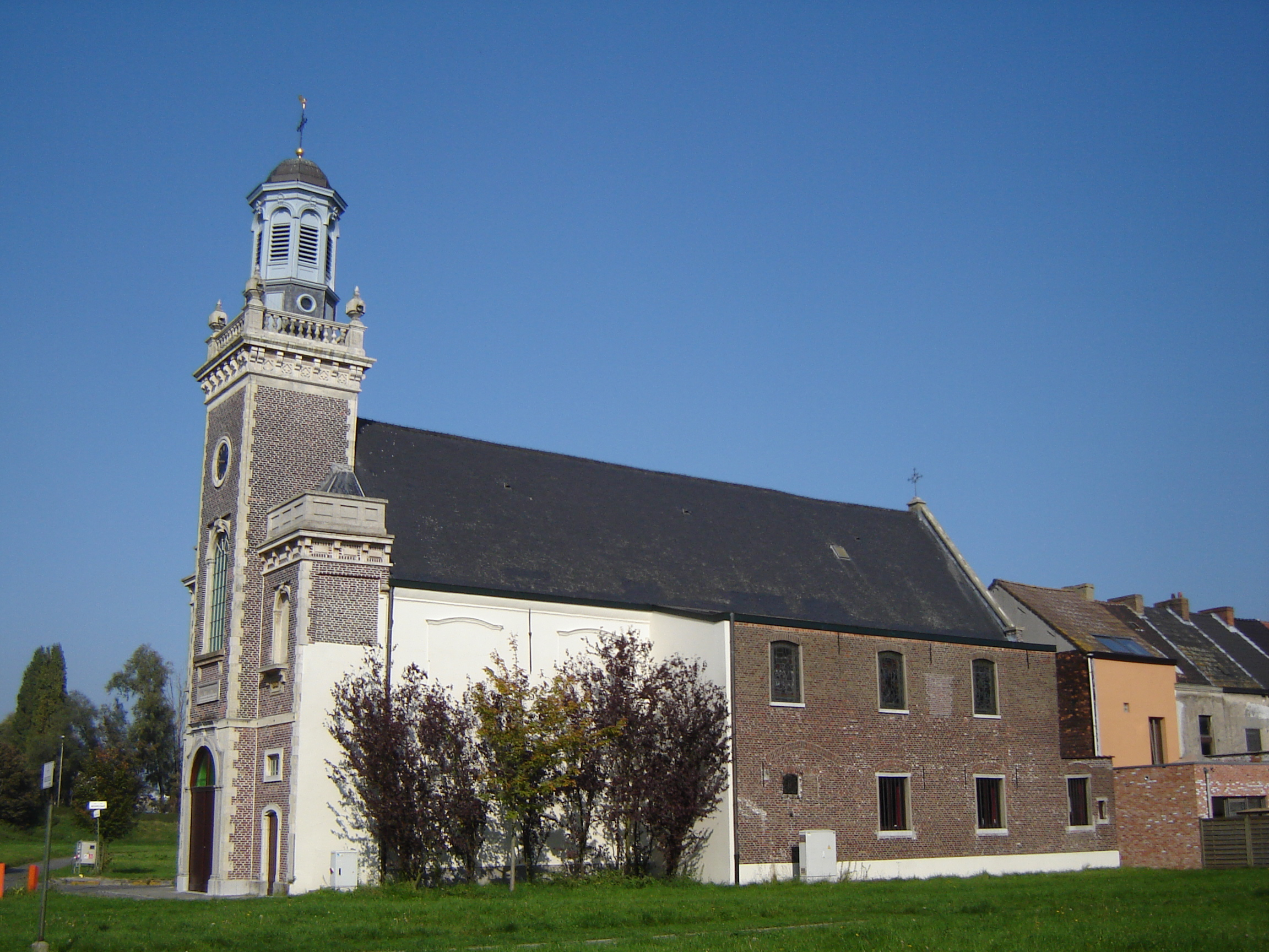 Church of Saint Anthony Abbot in the Meulestede quarter, Gent. Gent, East Flanders, Belgium.